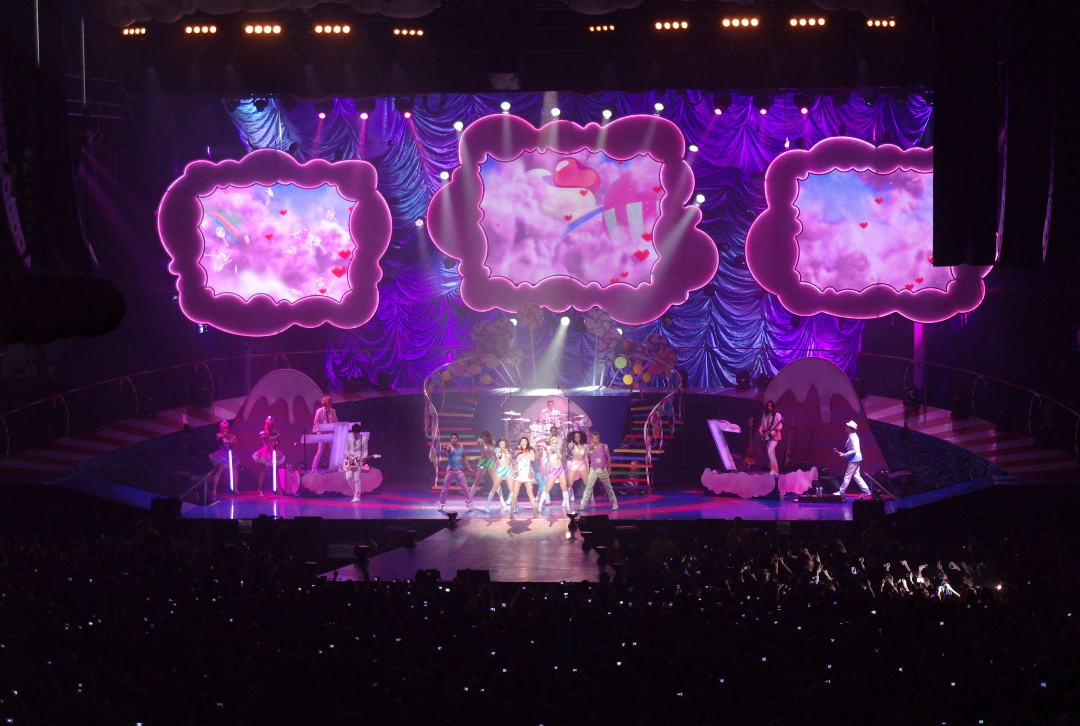 Katy Perry performs onstage at the Capital FM Arena in Nottingham.